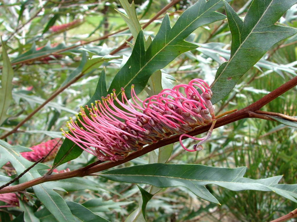 Hybrid of Grevillea barklyana Tall shrub, native to NSW, VIC, Australia Proteaceae [Tags at source: Australia, Victoria, VIC, Melbourne, Grevillea, Grevillea barklyana, Proteaceae, pink, flower, hybrid, Maranoa_Gardens]